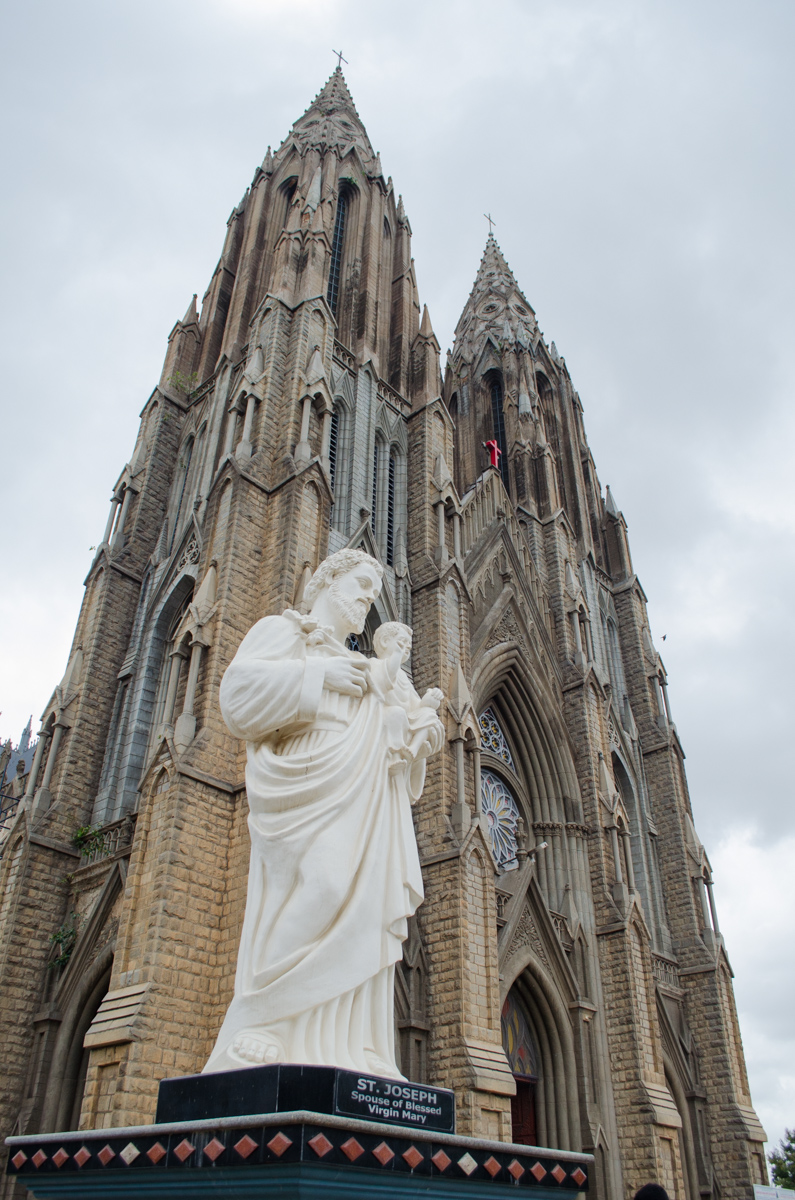 St. Philomena's Church, Mysore